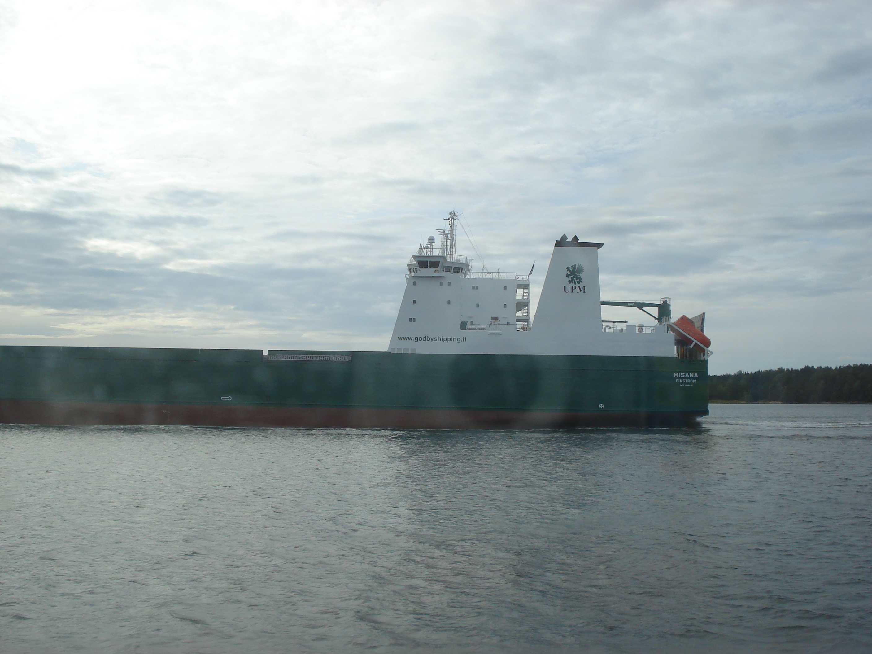 M/S Misana is Roll-on/roll-off ship ownded by Finnish Godby Shipping. Picture is taken at Nauvo Finland. IMO Number: 9348936 MMSI Number: 230994000 Callsign: OJNB Length: 164 m Beam: 24 m